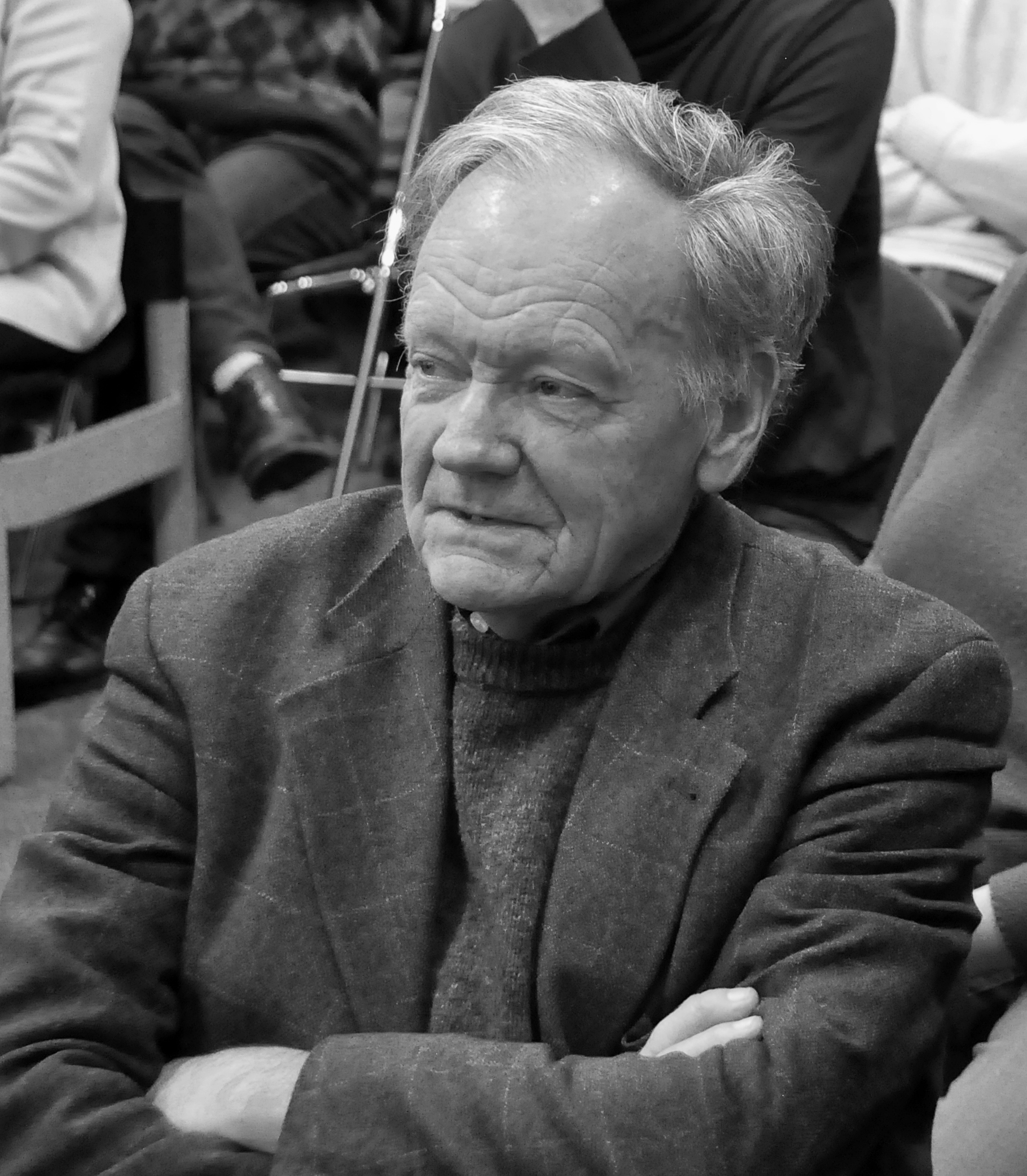 Luc Devliegher (born 1927), Belgian art historian and archaeologist